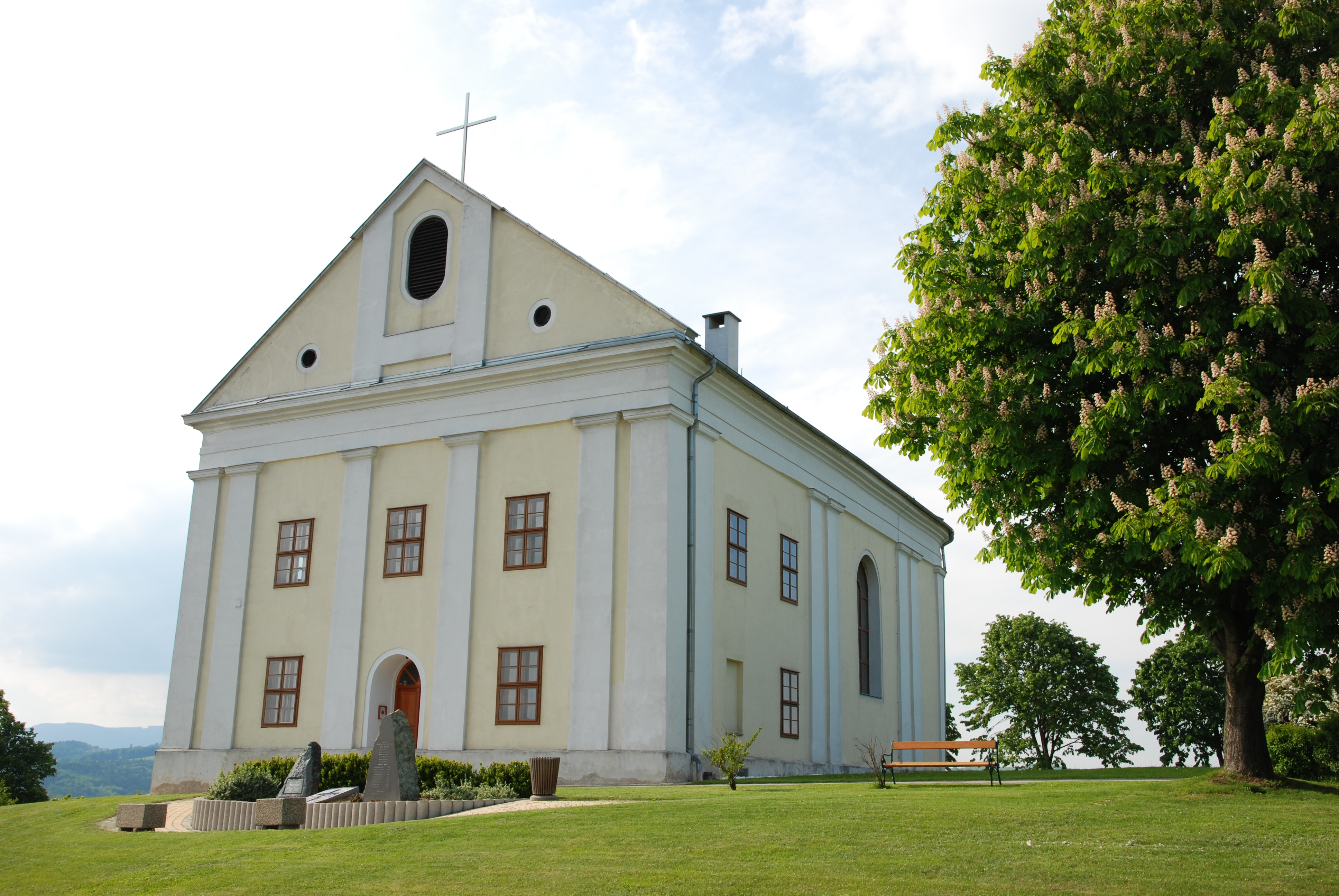 evang. Schul- und Bethaus Schmiedrait